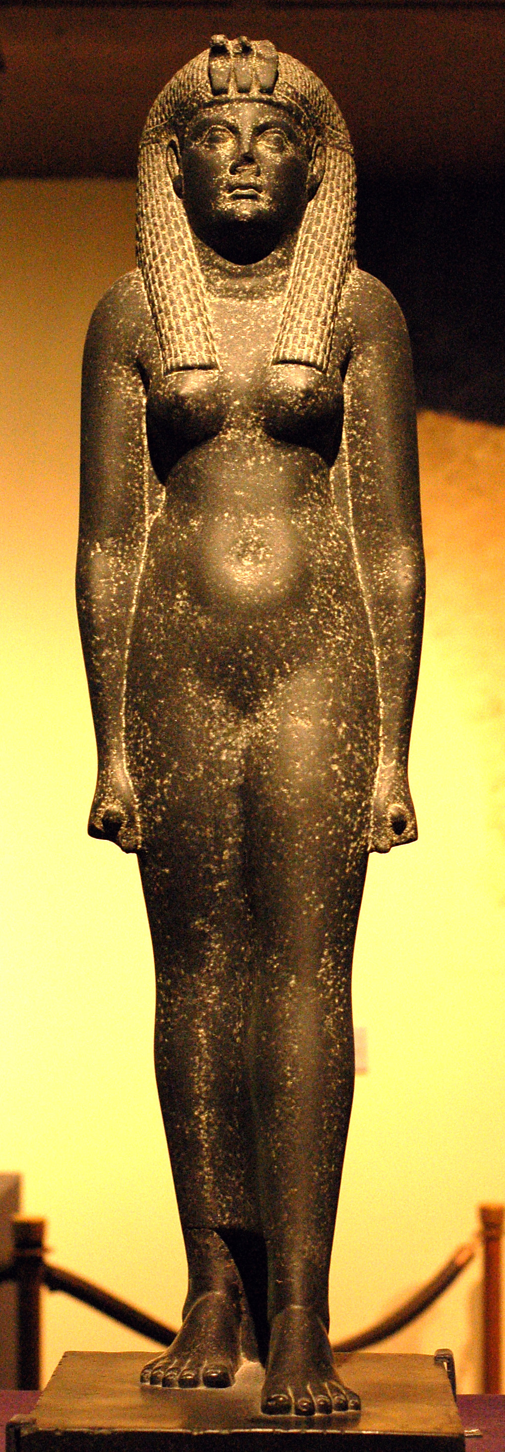 Photo of Cleopatra statue at Rosicrucian Egyptian Museum